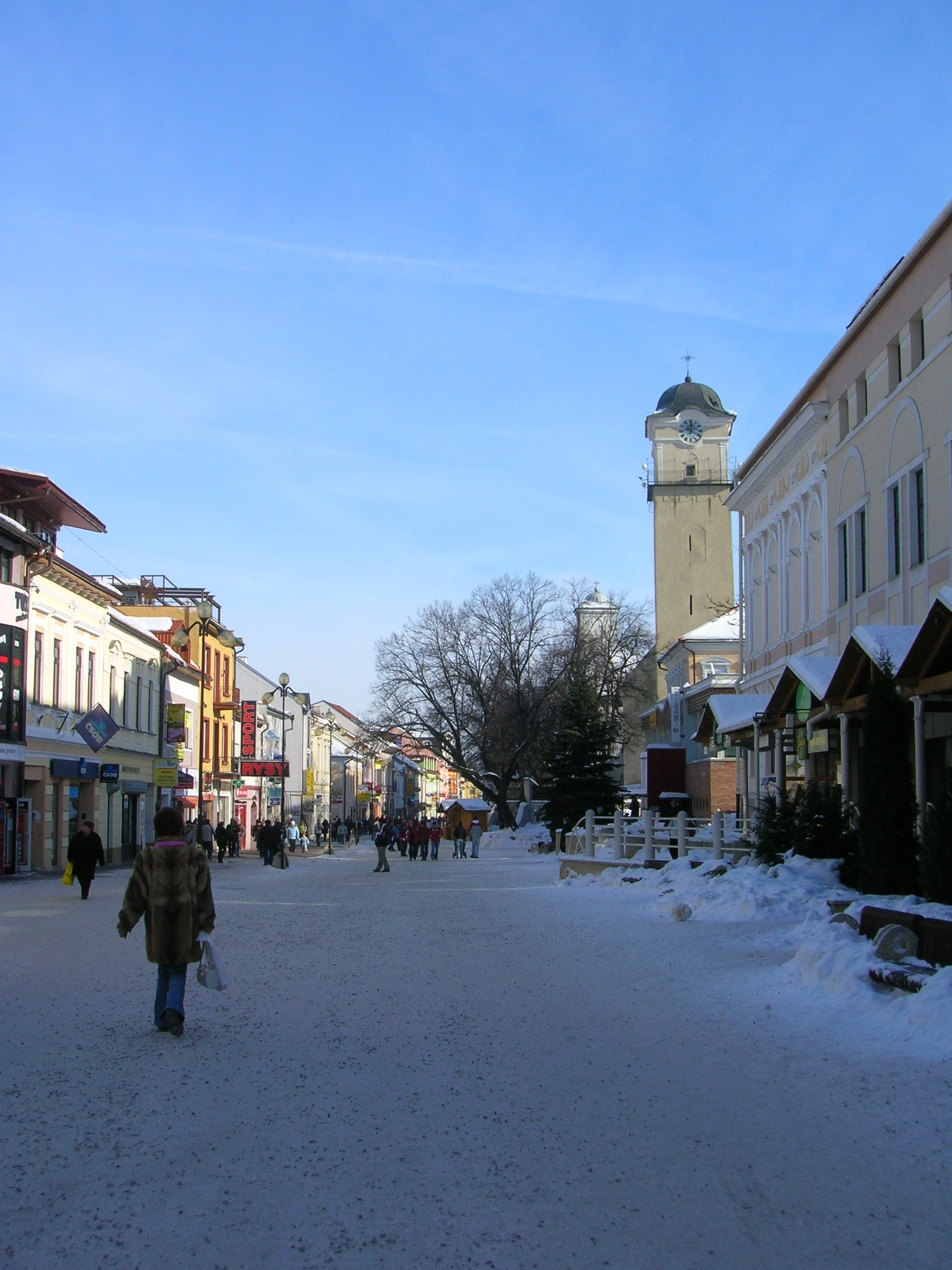 the centre of Poprad